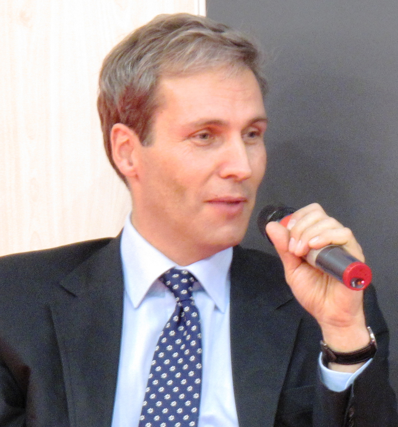 Frankfurt Book Fair 2011